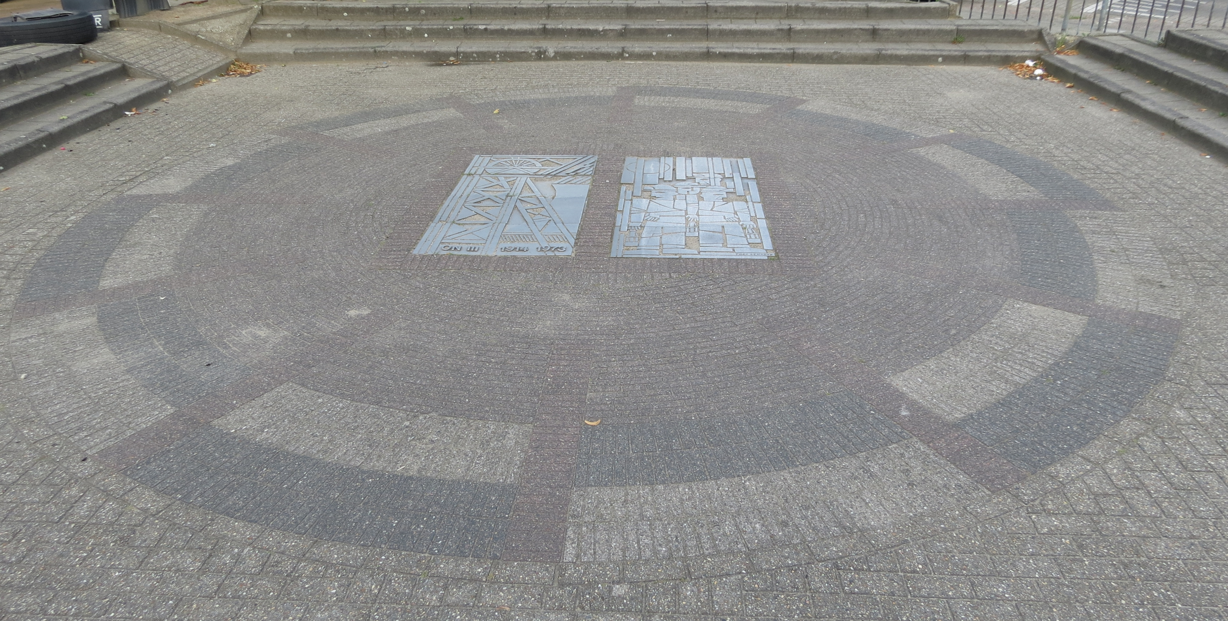 Cover of coal mine shaft of former coal mine Oranje Nassau III, Heerlerheide, the Netherlands